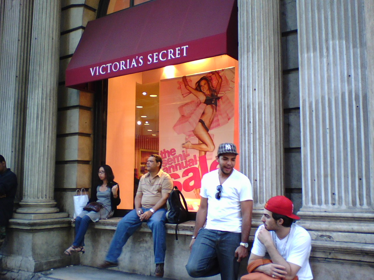 Victoria's Secret Store